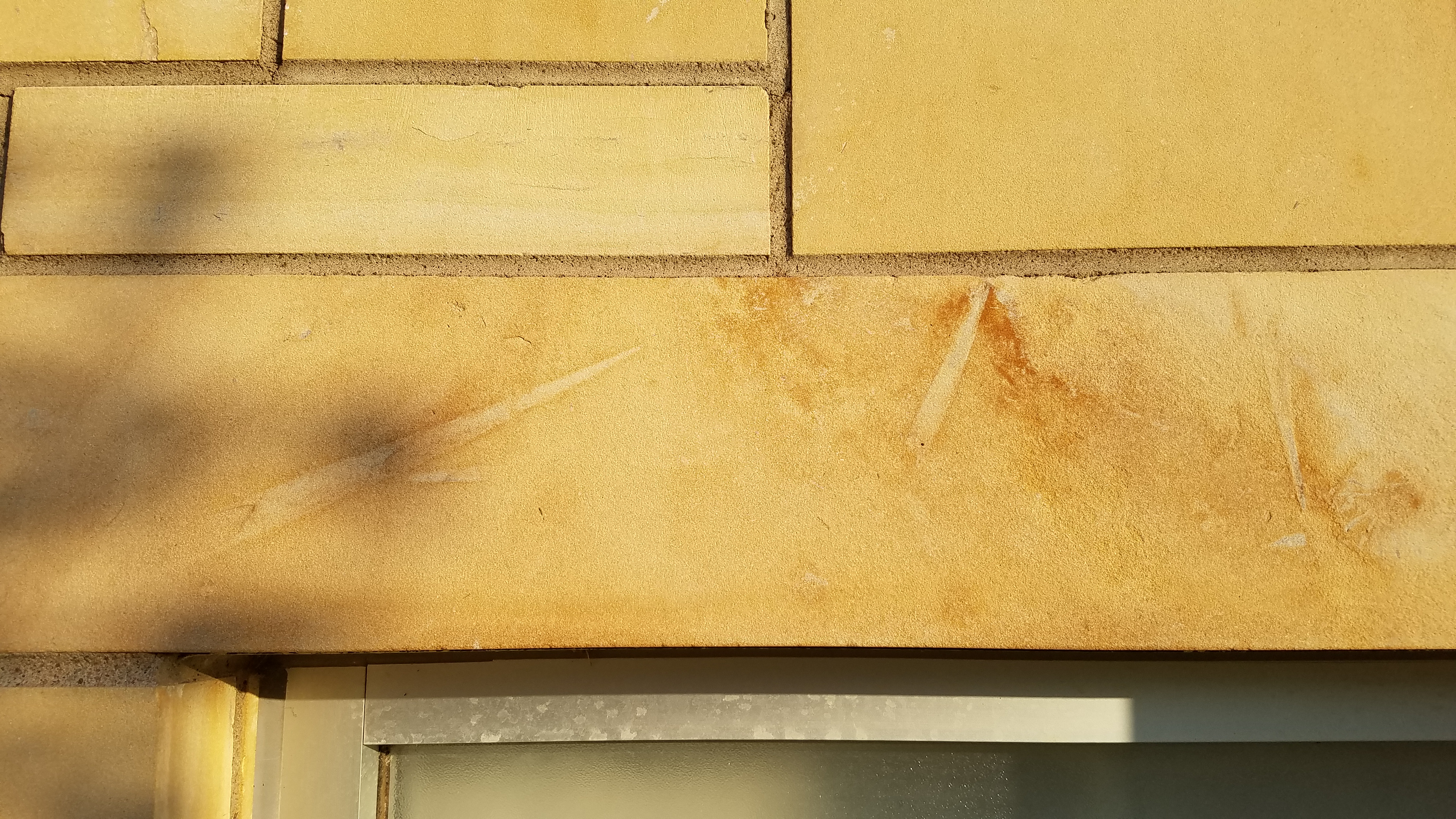 Random Ashlar, Fencepost limestone mostly laid in shiner orientation to show off the Cretaceous Pfeifer Assemblage: Collignoniceras woollgari (faint spiral far right) Baculites yokoyamai (several tapered shapes) Inoceramus labiatus (thin cross section in the only non-shiner stretcher in the picture, upper left) Generally, fossils in the Greenhorn limestones like the Fencepost and the Shellrock lie in the horizontal bedding plain, and so are more apparent when the stone is set on-side, or shiner.